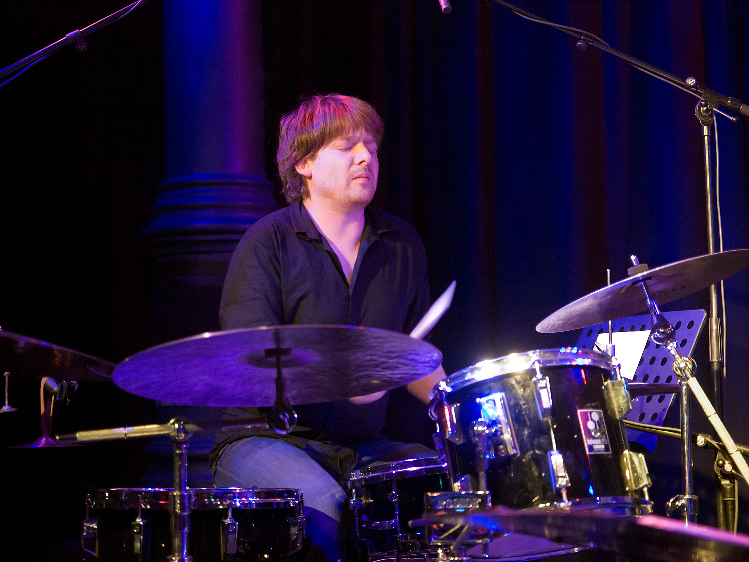 Lionel Friedli, Jazz drummer; Picture taken in Jazz Club Unterfahrt, Munich/Bavaria